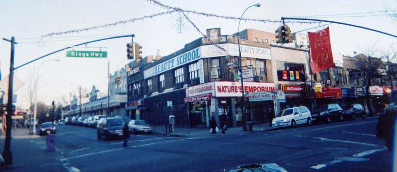 I took this picture on Kings Highway